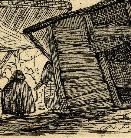 The little fish market; a square with houses, stalls and sheds, several people walking around. 1841 Etching with surface tone